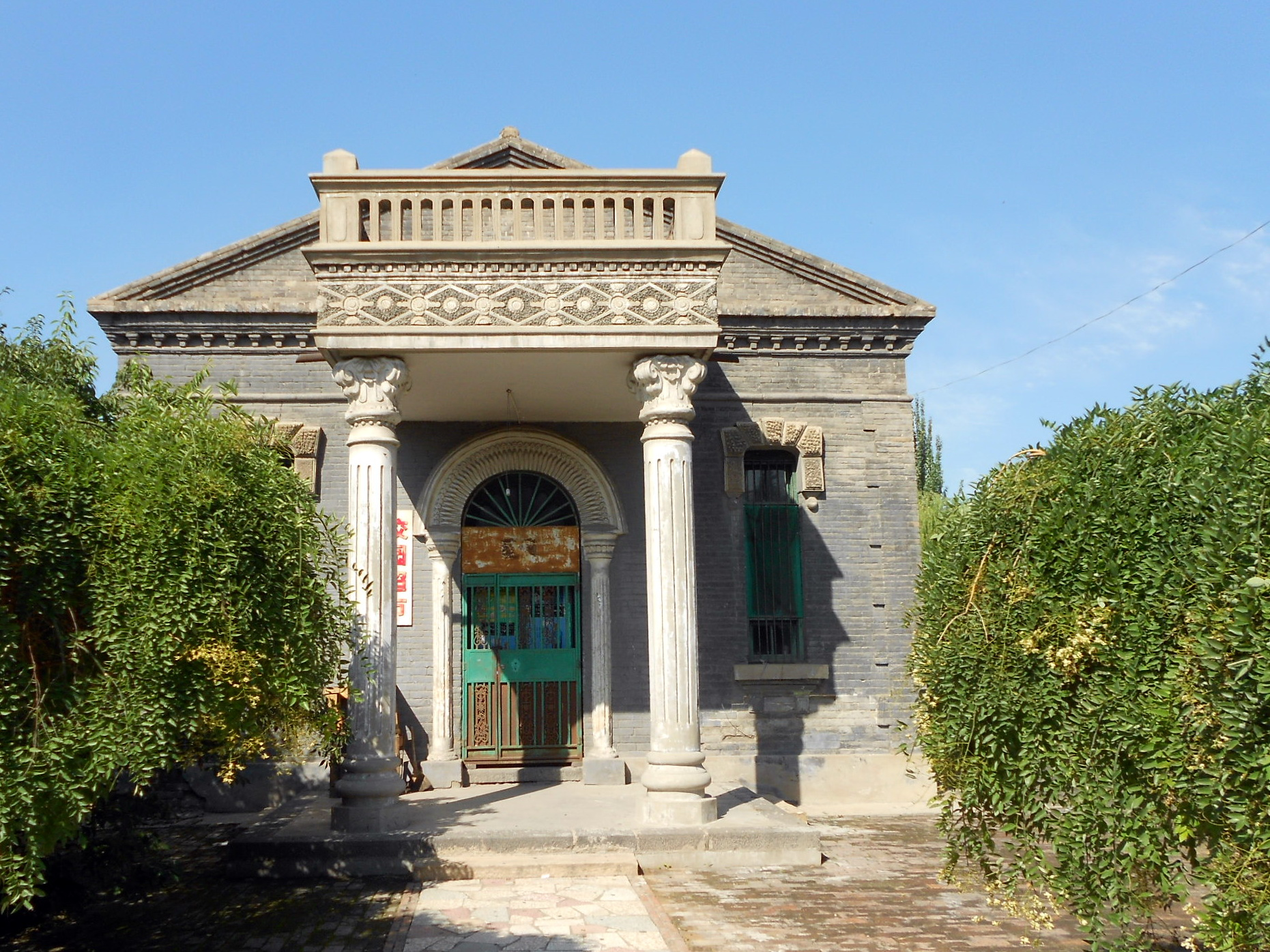 The Shanxi Third Middle School, Lab or Lib